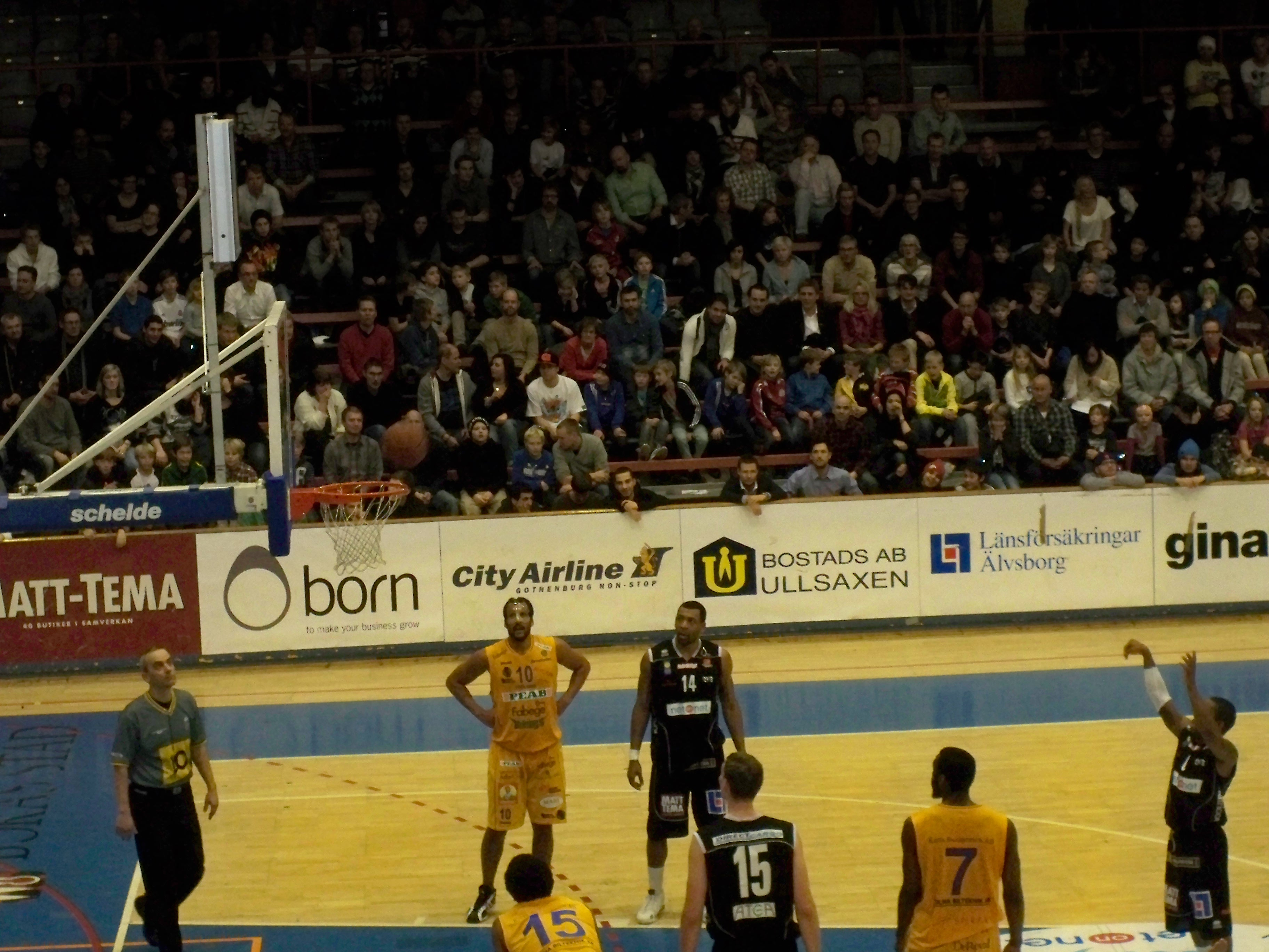 A sequence from a basket ball game in the sports hall of Borås, Sweden.